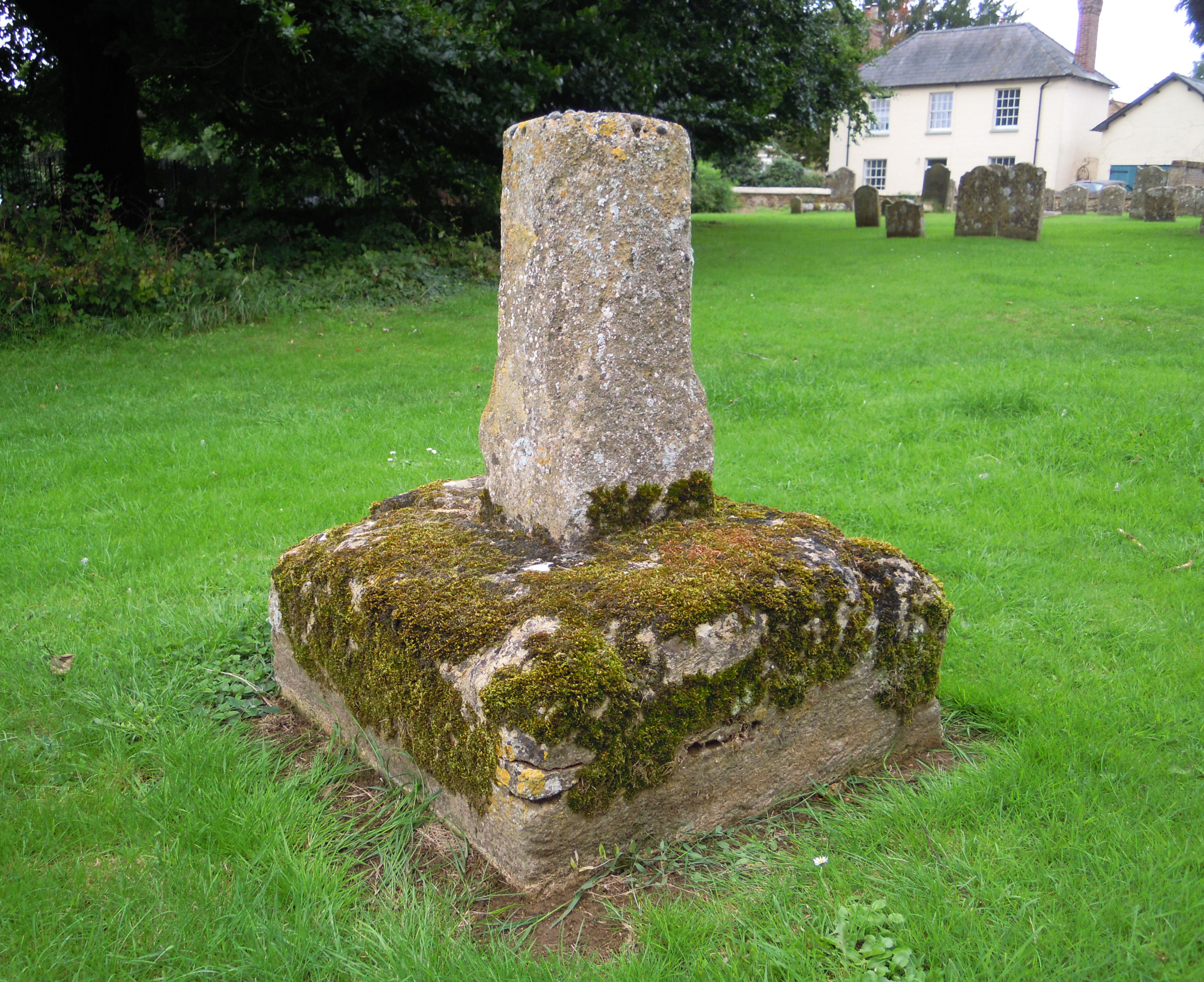 The remains of the mediaeval cross in the churchyard of the Church of St Mary the Virgin in Gamlingay in Cambridgeshire